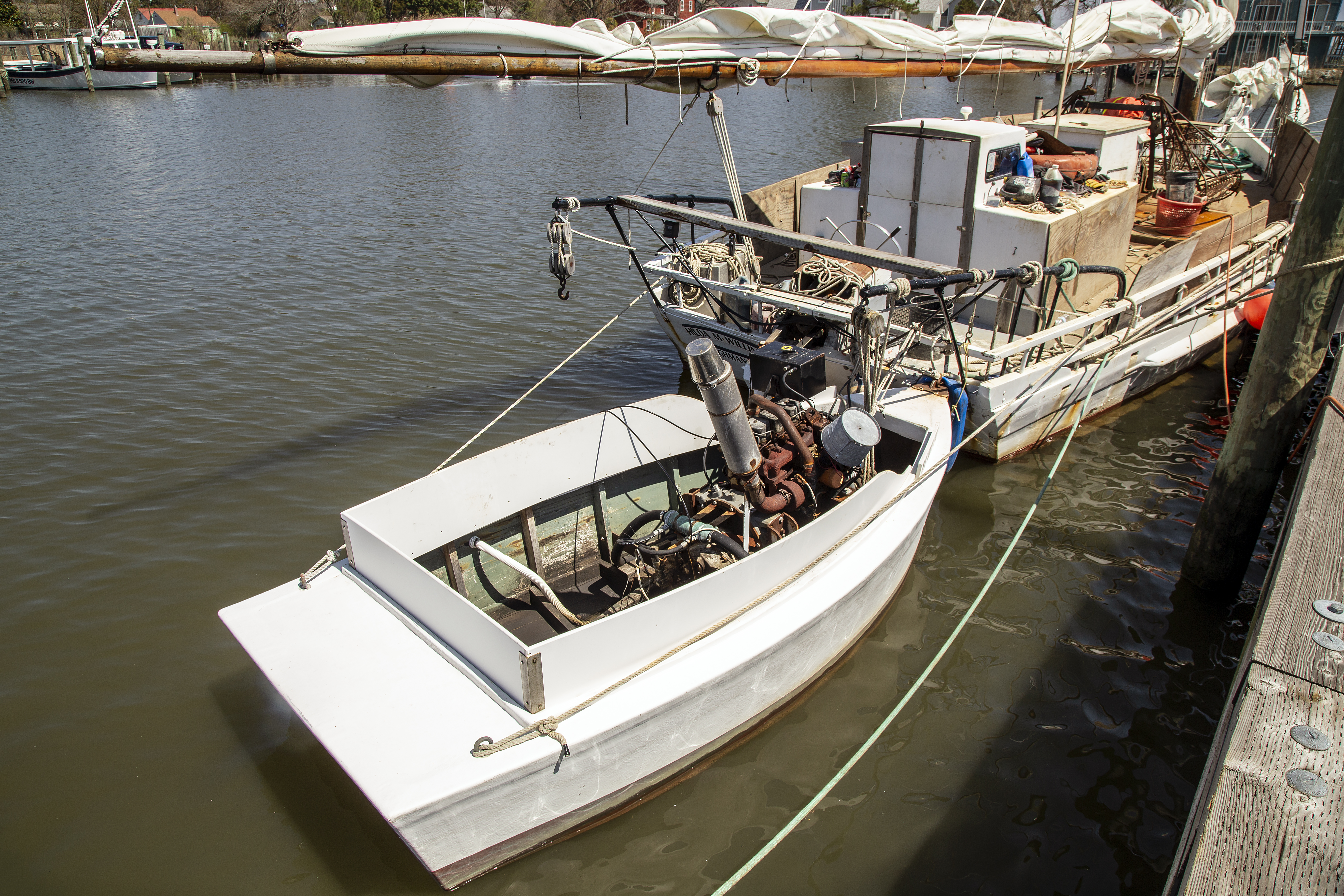 Skipjack Hilda M. Willing's and pushboat, Dogwood Harbor, Tilghman Island, Maryland, USA